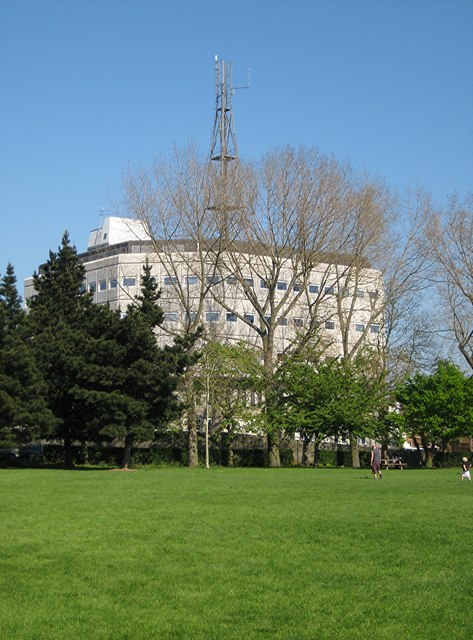 Essex Police HQ, Springfield, Chelmsford Vaguely Orwellian structure.